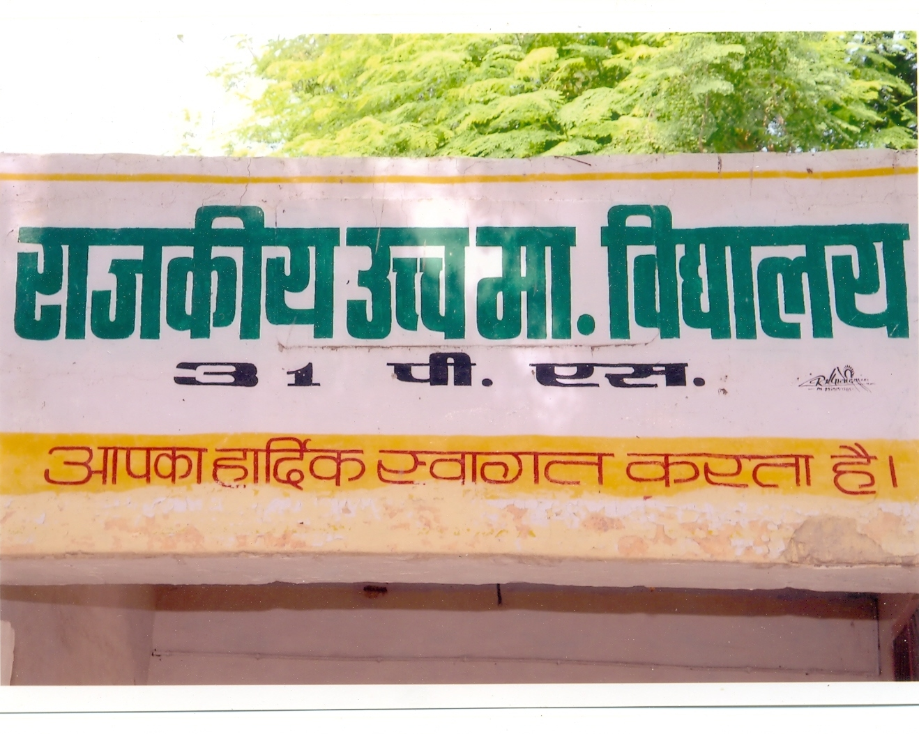 Name of GSSS